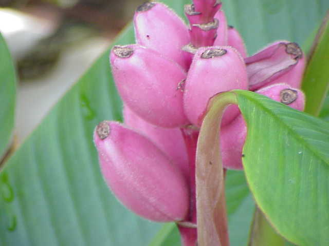 Species: Musa sp. Family: Musaceae Image No. 1